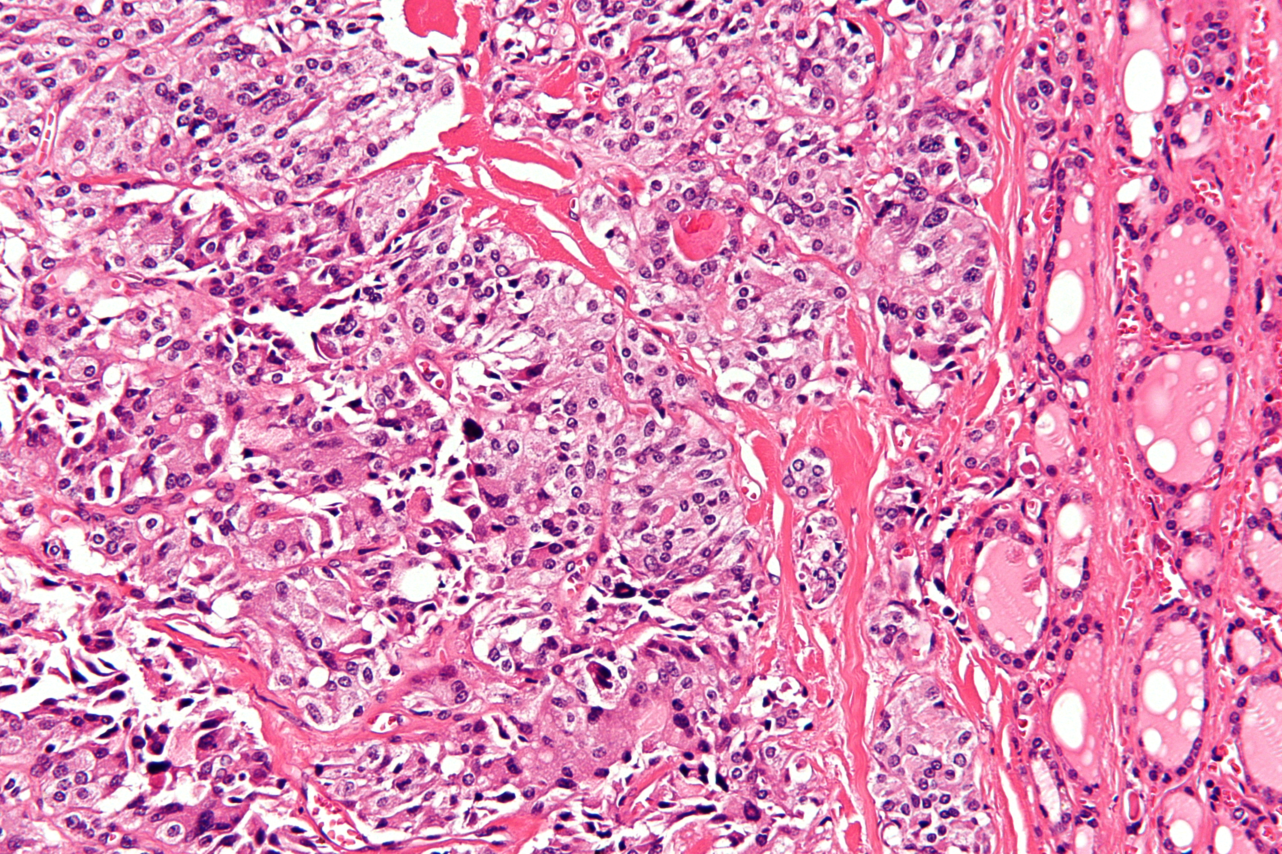 High magnification micrograph of medullary thyroid carcinoma, abbreviated MTC. H&E stain. MTC can be remembered by the 3 Ms: aMyloid. Median node dissection. MEN 2A & MEN 2B. It typically stains with: Calcitonin. CEA. Chromogranin A. Multiple endocrine neoplasia 2A: Medullary thyroid carcinoma. Parathyroid adenoma. Pheochromocytoma. Multiple endocrine neoplasia 2B: Medullary thyroid carcinoma. Pheochromocytoma. Neuromas/ganglioneuromas. Related images Low mag. Intermed. mag. High mag. Intermed. mag. High mag. Very high mag.